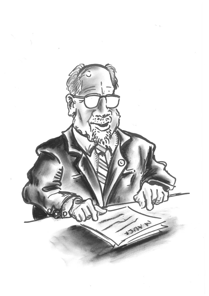 caricature of Walter UlbrichtNorsk bokmål: Karikatur av Walter Ulbricht